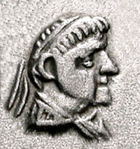 Strato II portrait